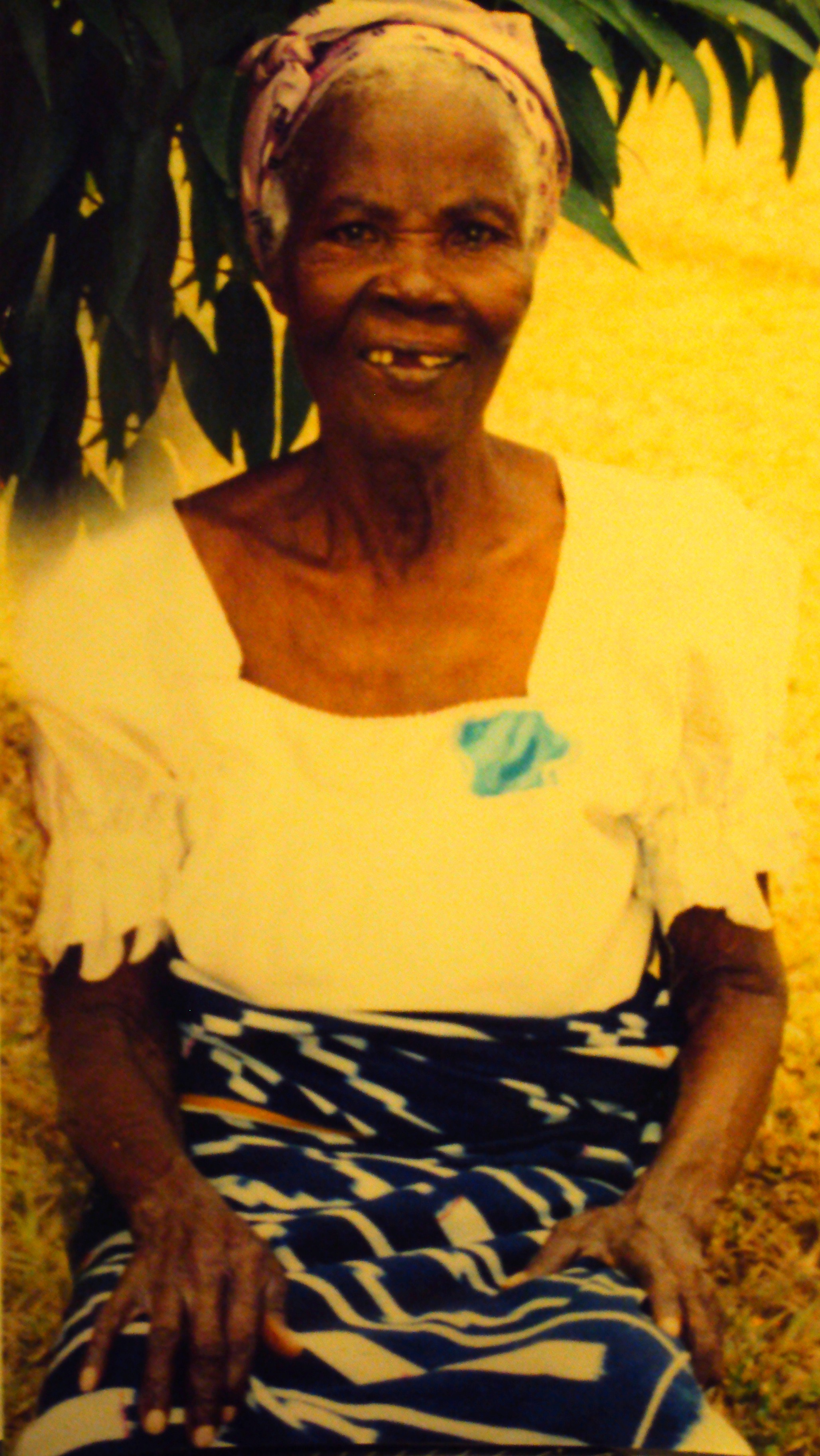 Kru women from the area of Blolequin, Ivory Coast